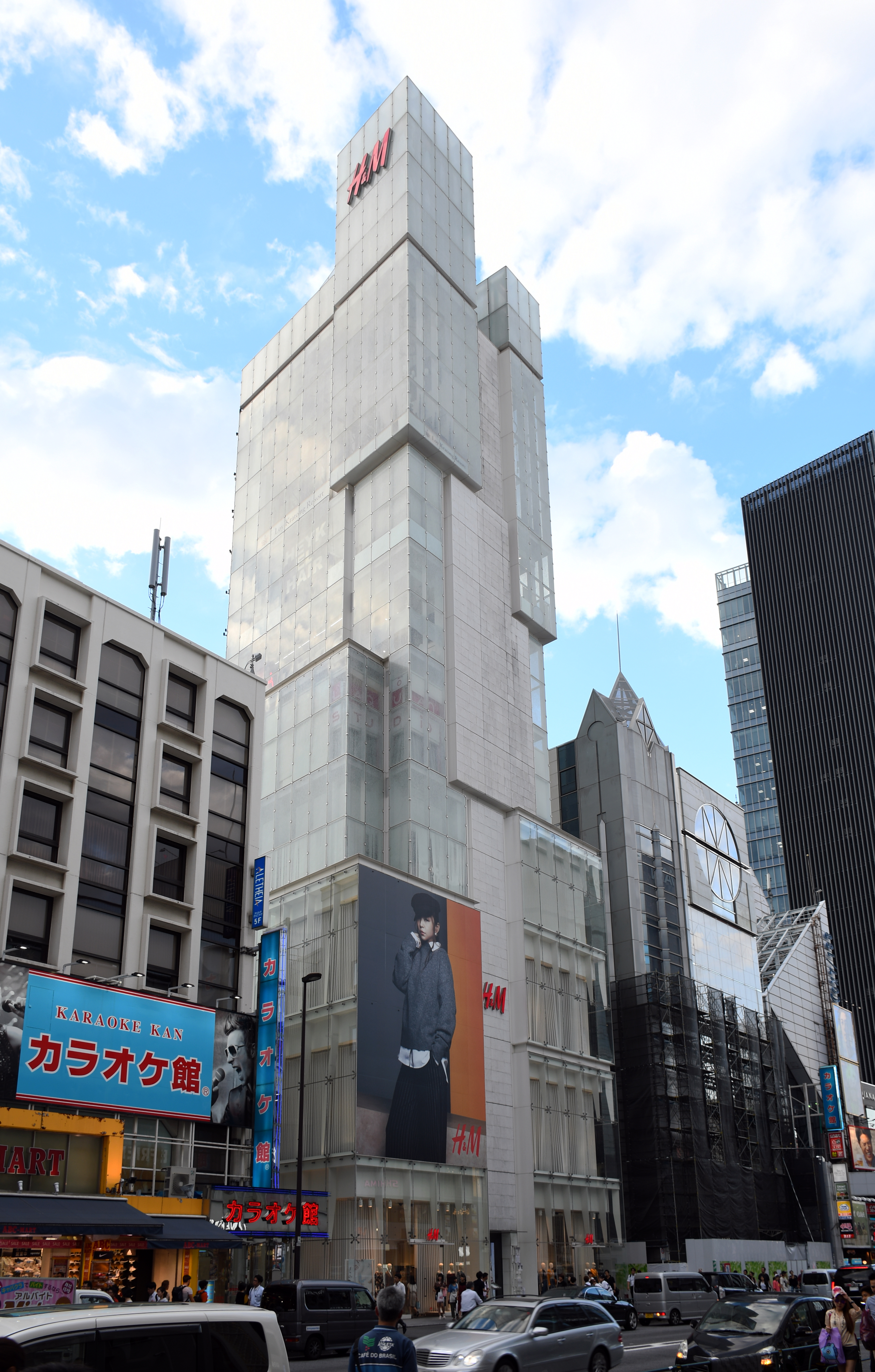 The H&M building in Harajuku, Tokyo (Japan).